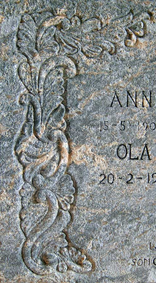 Steatite. Engraved. Topstone from norwegian graveyard.